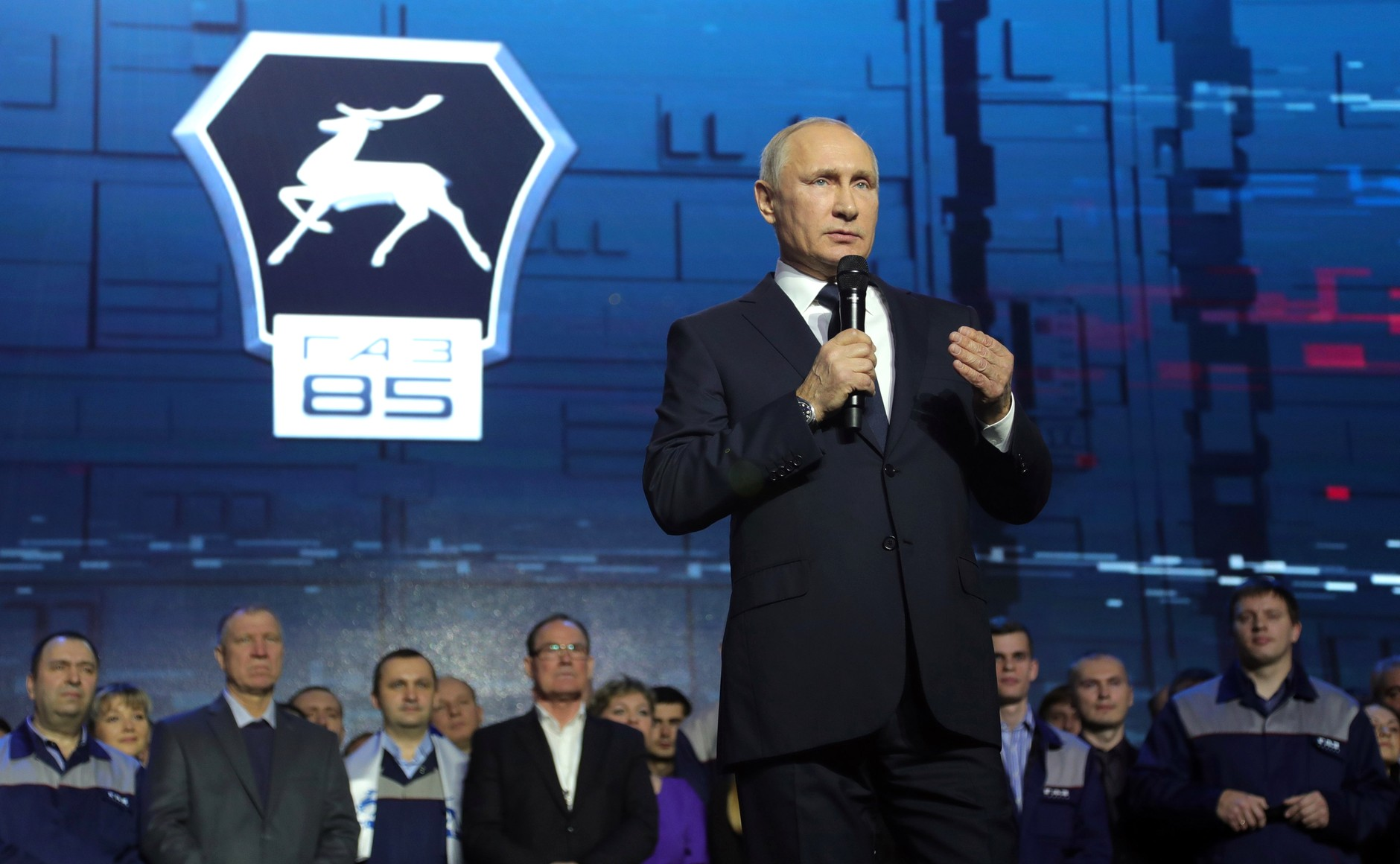 Putin announced the nomination of candidates for President of the Russian Federation at the GAZ plant on December 6, 2017.